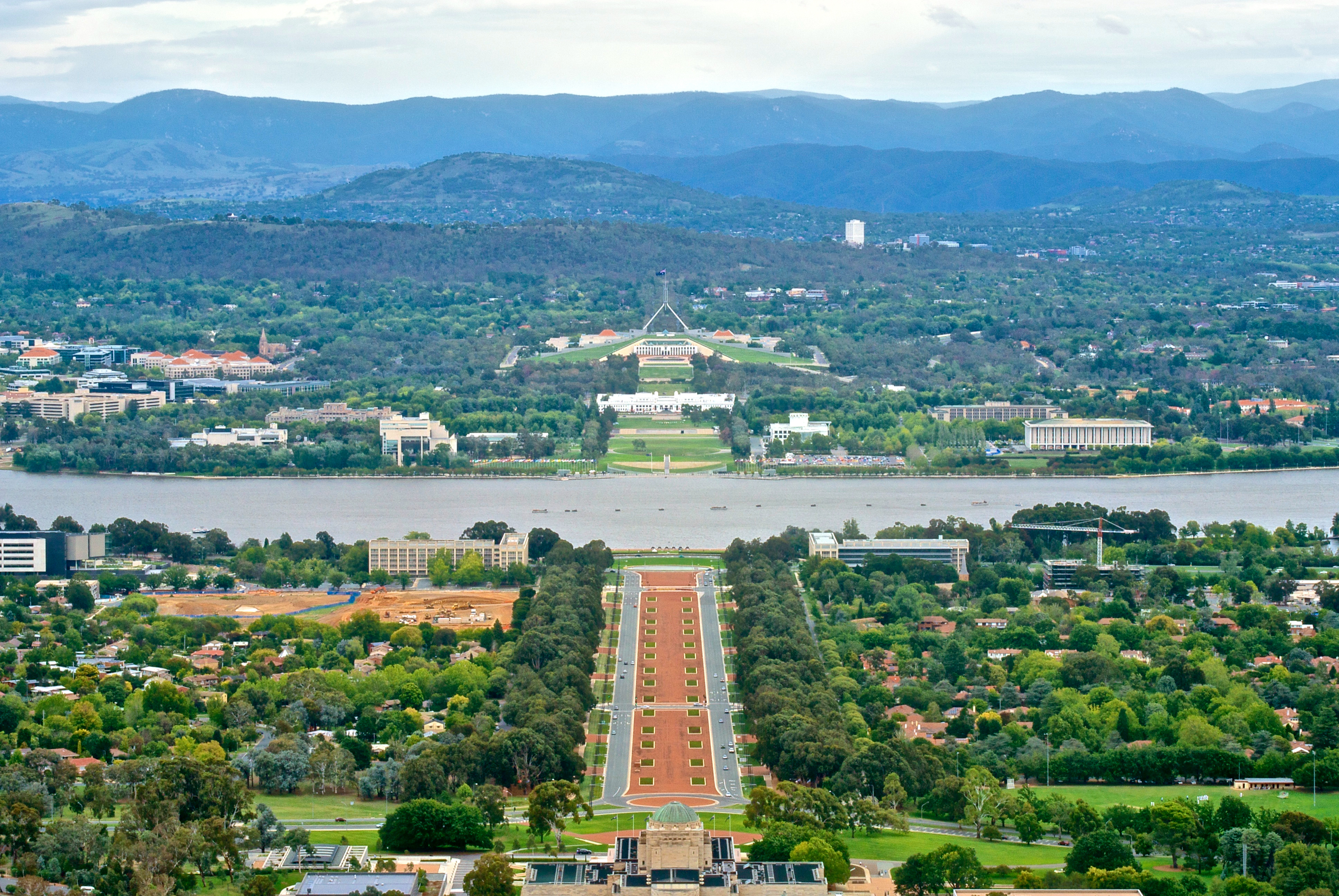 Canberra from Mount Ainslie